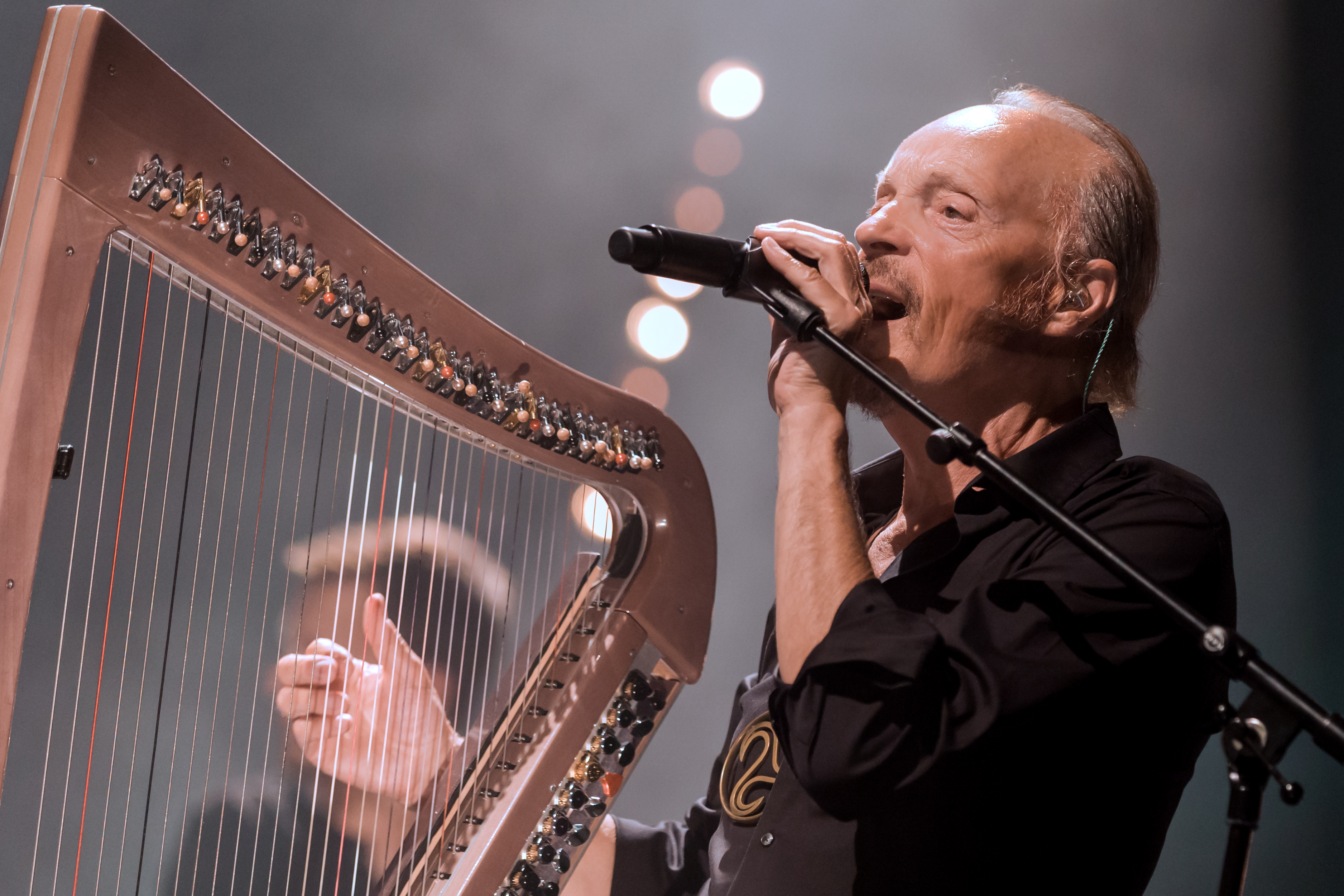 Breton harpist Alan Stivell in live during Cornouaille Festival (Quimper, Brittany) July 22, 2016.